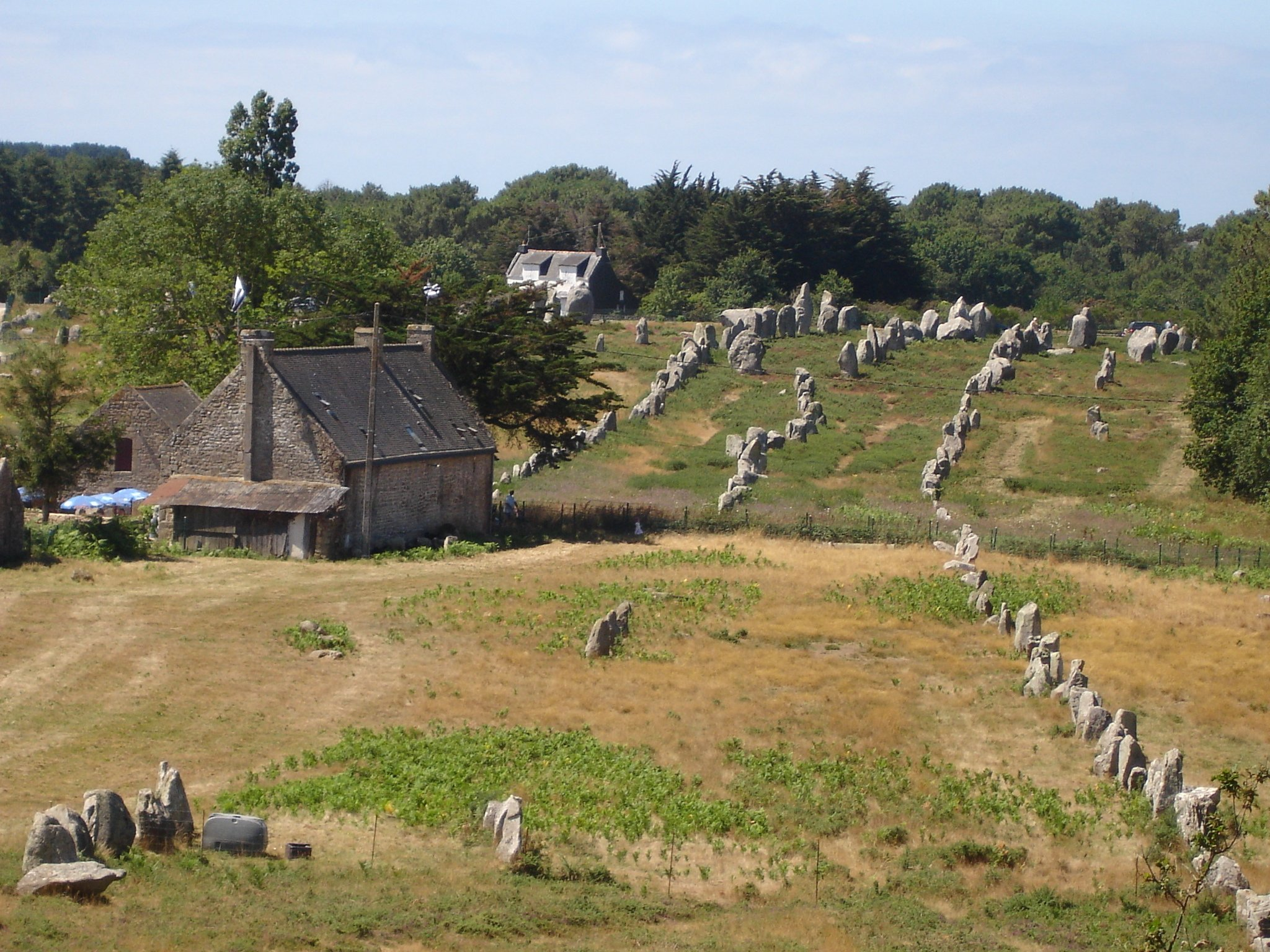 France, Morbihan, Carnac, Kermario